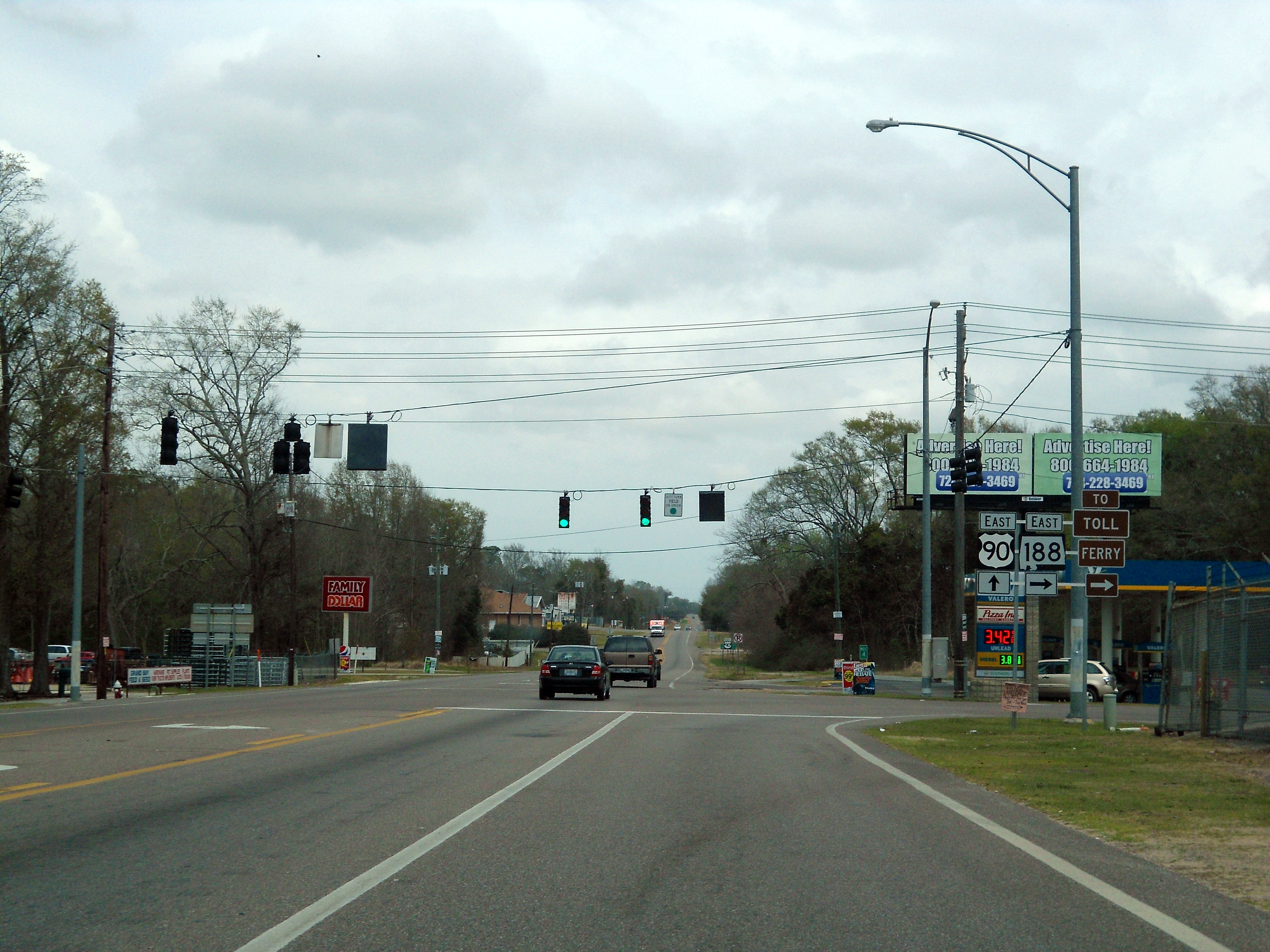 US 90 and Alabama 188 overlap in Grand Bay, AL